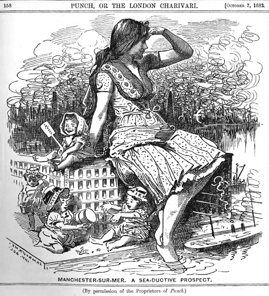 A cartoon in the satirical magazine Punch ridiculing the idea that Manchester could become a seaport to rival other major British cities such as Liverpool. A woman, representing Manchester, is dipping her toes into the proposed ship canal. The children playing around her represent the local Manchester waterways: the Irwell, Irk, Medlock, and Cornbrook.